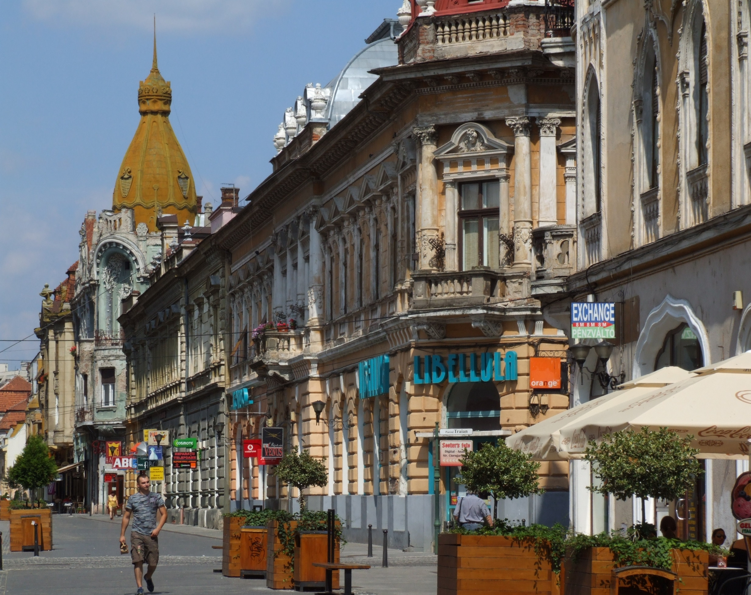 Oradea - Nagyvárad (Grosswardein) - street